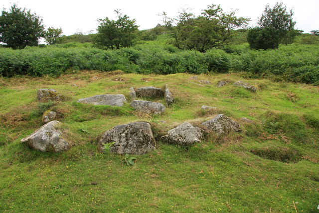 Leather Tor cist A cairn and burial chamber south of Leather Tor.